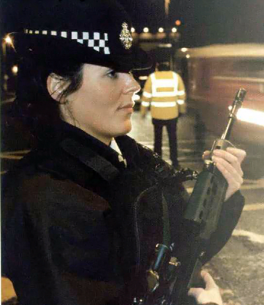 Female MDP officer with SA80A2